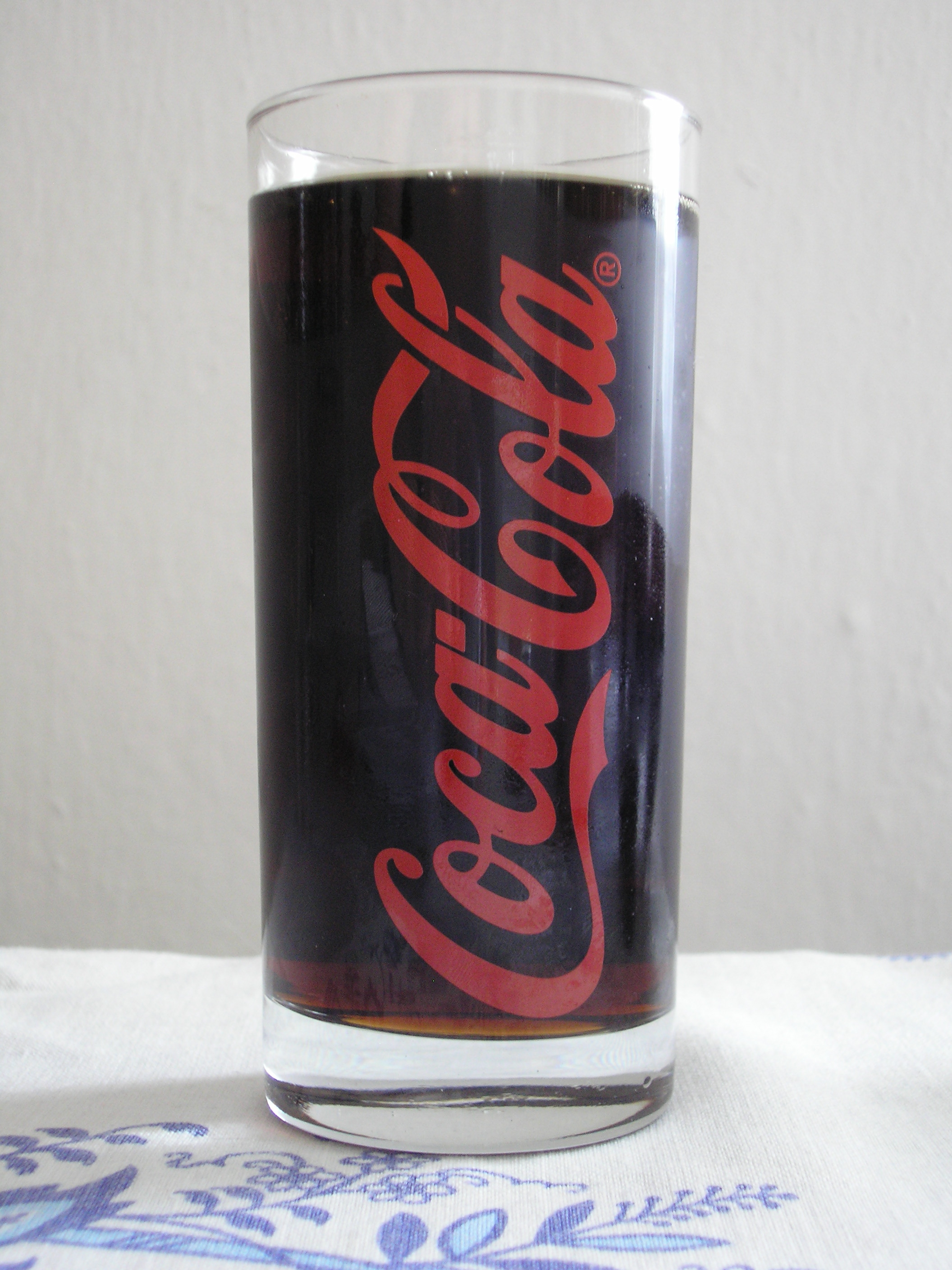 Glass of Coca-Cola with Coca-Cola logo